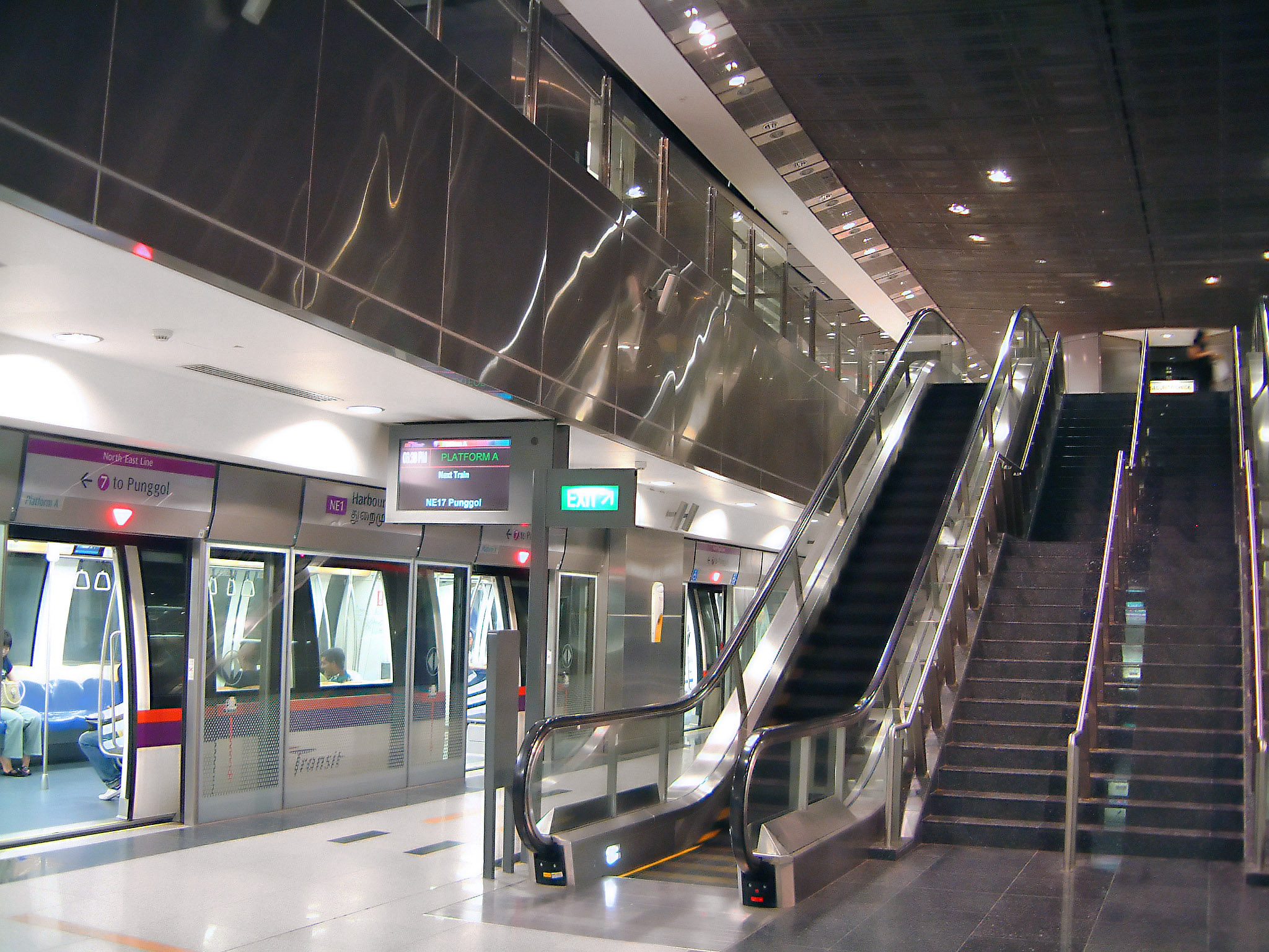 This image depicts the platform and escalator leading up to concourse level in HarbourFront MRT station. The train at the platform is heading in the direction of Punggol. Image captured by Calvin Teo, in December 2005